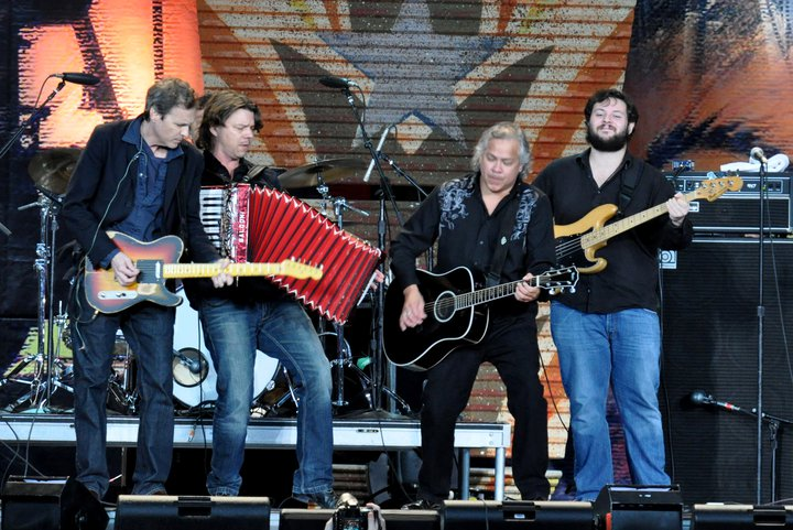 BoDeans live at Farm Aid in 2010.